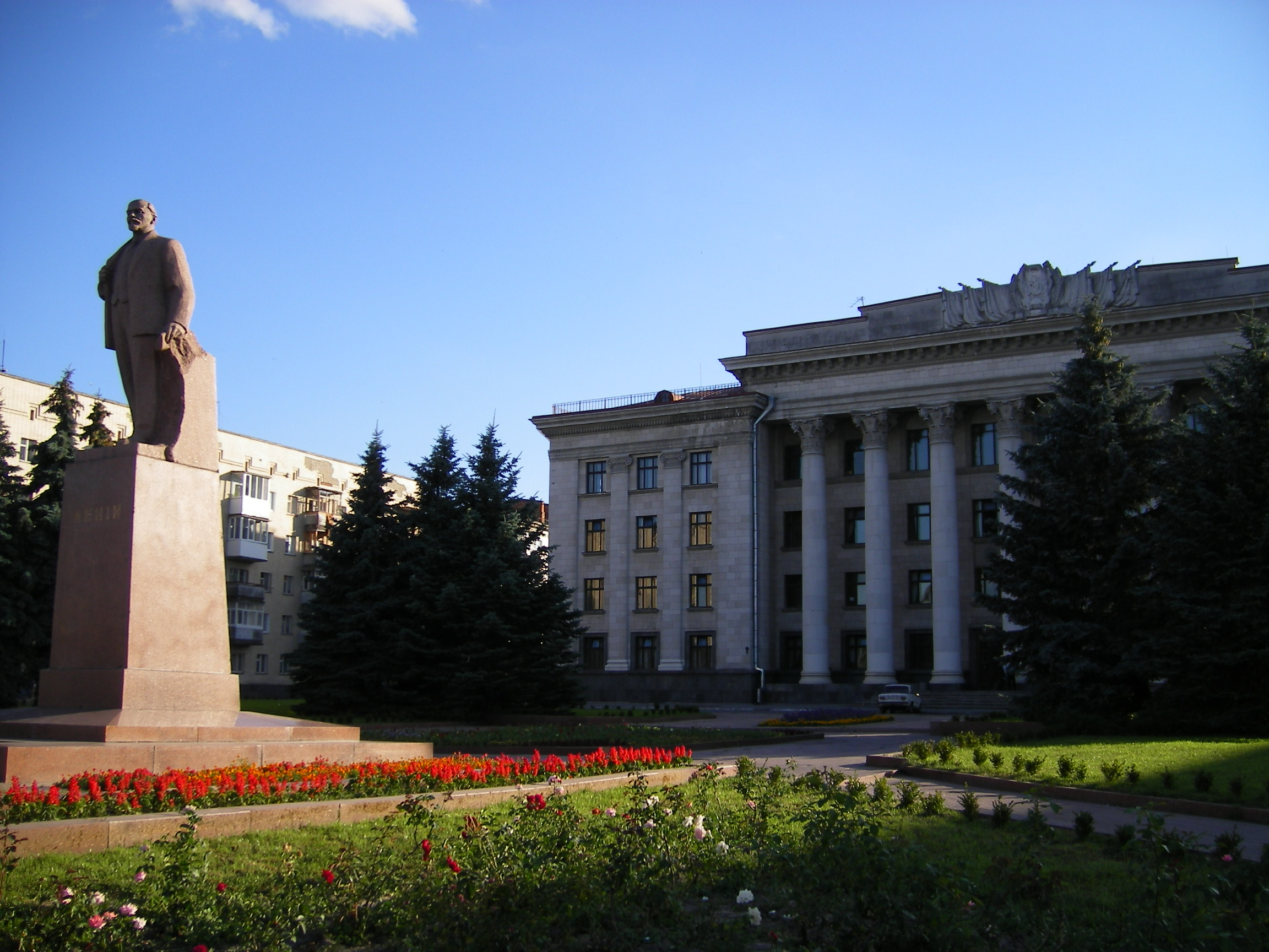 Zhytomyr, oblast administration building, Lenin memorial (destroyed on 21 February 2014)